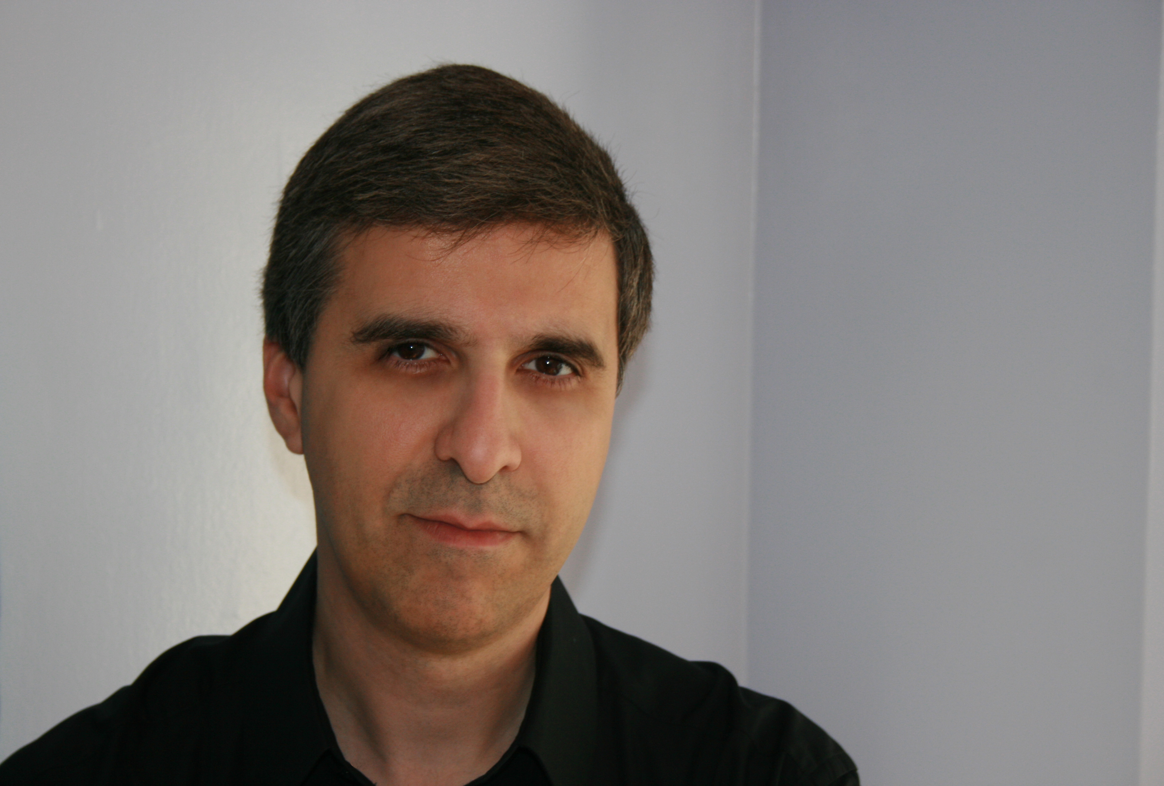 Close up photo of Vince Mendoza, Composer and Conductor, with blue background